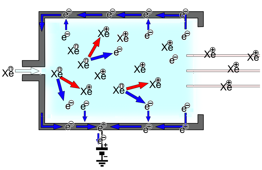 Schematic of ion engine "mu-10" for "Hayabusa" pic.#2